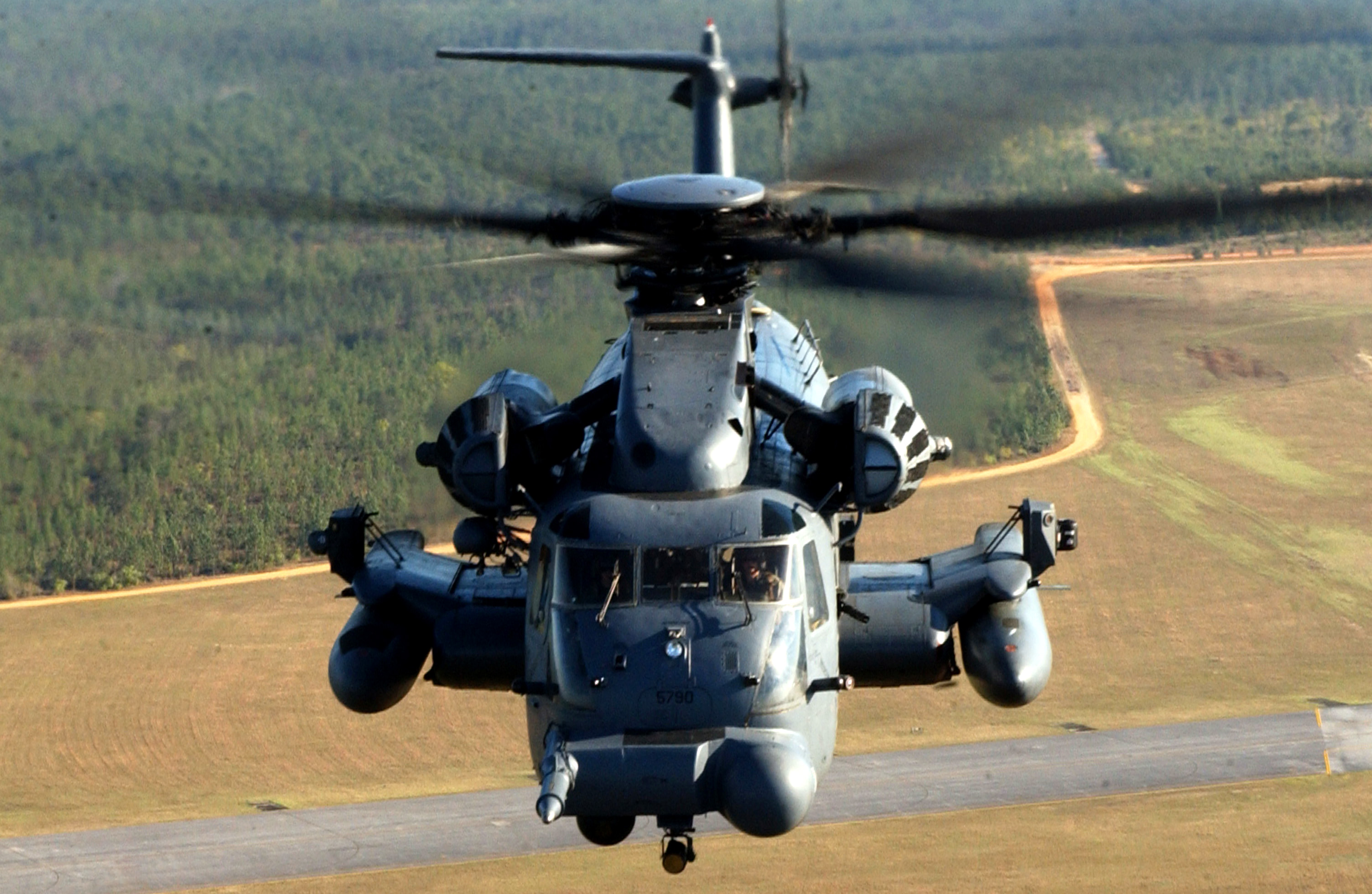 An MH-53 Pave Low helicopter, like the one pictured flying over Florida, crashed near Duke Field at approximately 11:45 p.m. Sept. 7, 2007. The helicopter can fly long ranges at low levels in adverse weather. This Pave Low, Tail Number 5-790, is from the 20th Special Operations Squadron (SOS) at Hurlburt Field, Fla, 1st Special Operations Wing (SOW) (AFSOC). They were also assigned to the 352nd Special Operations Group(SOG)/21st SOS at RAF Mildenhall, UK; 353rd SOG/31st SOS at Osan AB, Republic of Korea; and 58th SOW/551st SOS at Kirtland AFB. NM.